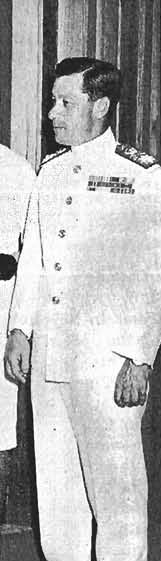 Canadian Rear-Admiral W. M. Landymore, Flag Officer Pacific Coast, in 1964.